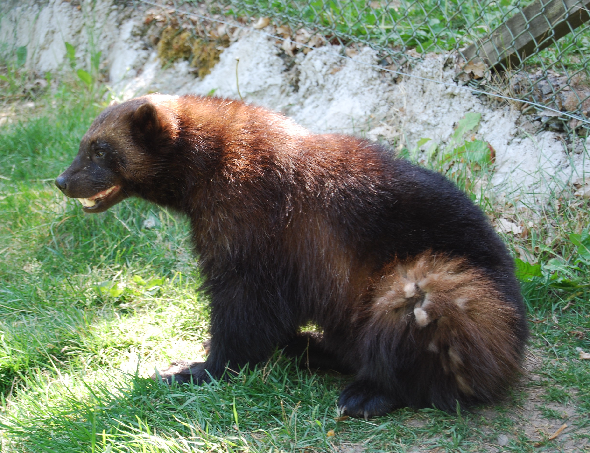 Wolverine